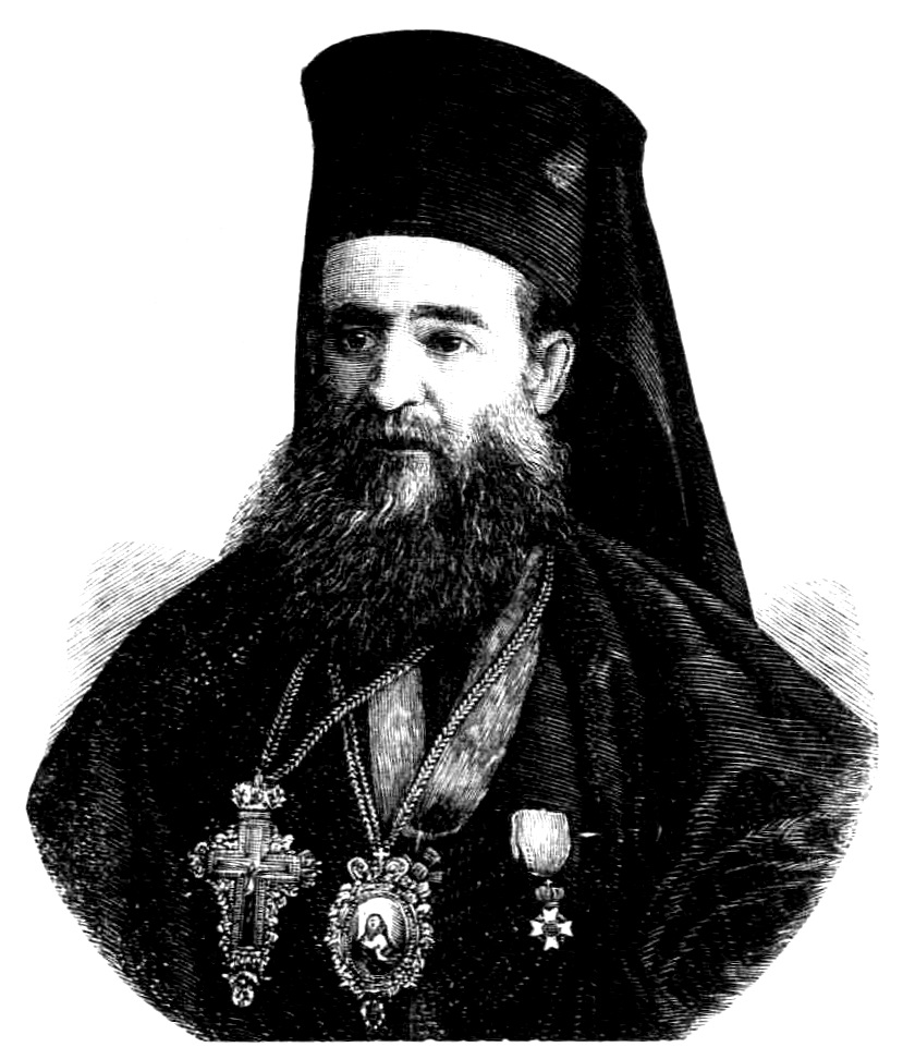 Metropolitan Germanus of Athens (1844-1896)